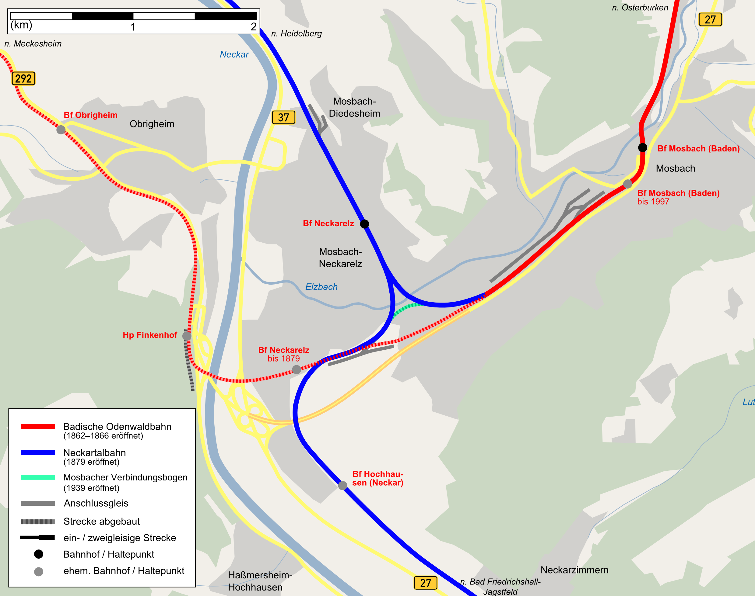 railway map of Mosbach and surroundings.